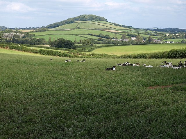 Towards Denbury Down from Blackwell Cross. The field on the other side of the lane from 944709 also contains calves, but these were lying down. The distinctive Denbury Down is in SX8168, and the hamlet of Pulsford, on the right, is in SX80688.